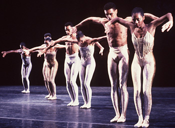 The Dance Theatre of Harlem perform Dialogues in 2006.